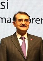 Russian President Vladimir Putin and President of Turkey Recep Tayyip Erdoğan took part in a ceremony marking the completion of TurkStream gas pipeline’s offshore section, Istanbul, Turkey.